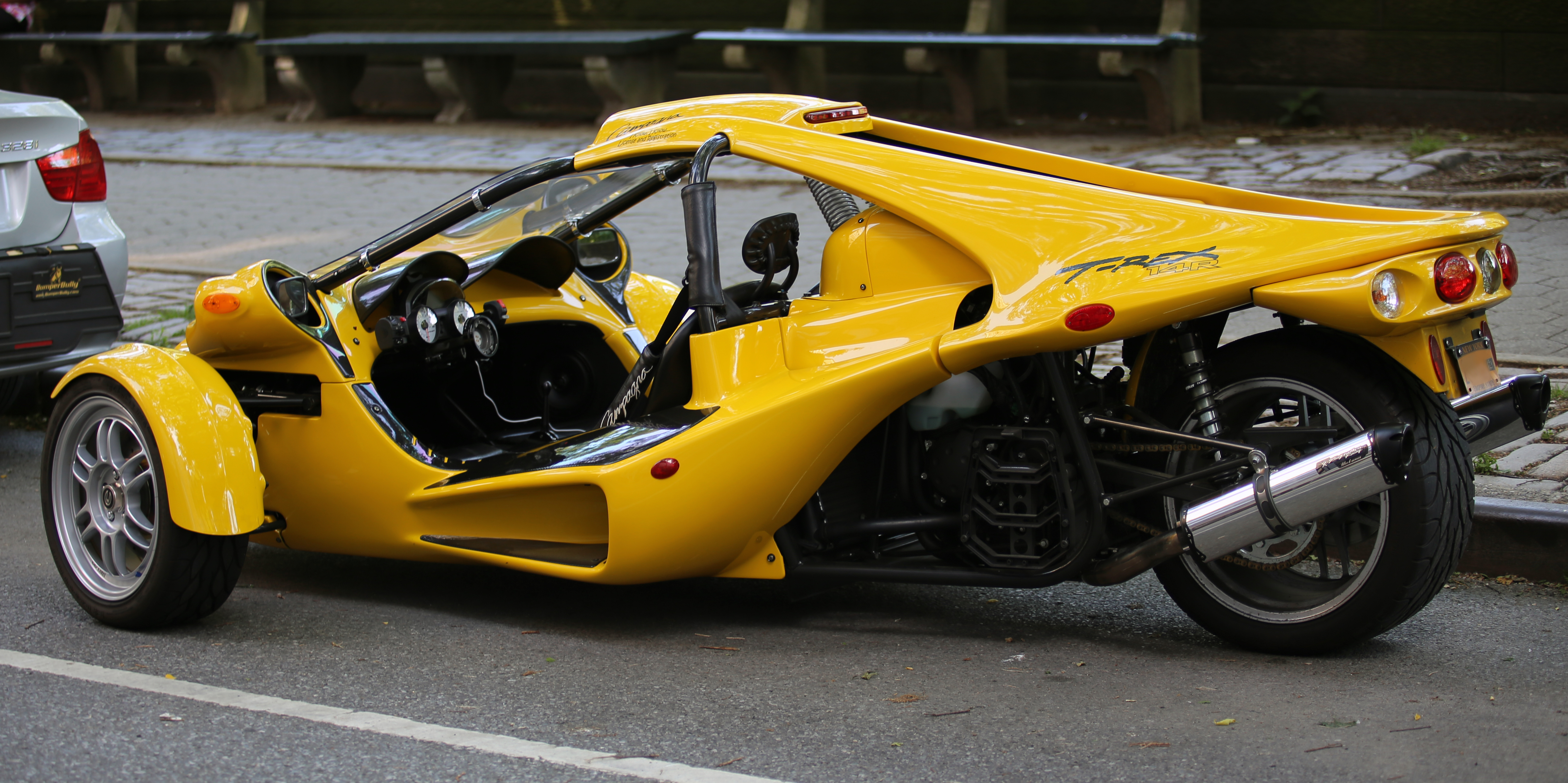 Rear left 3/4 view of a Campagna T-Rex 14-R. Kawasaki Ninja 1400 engine.